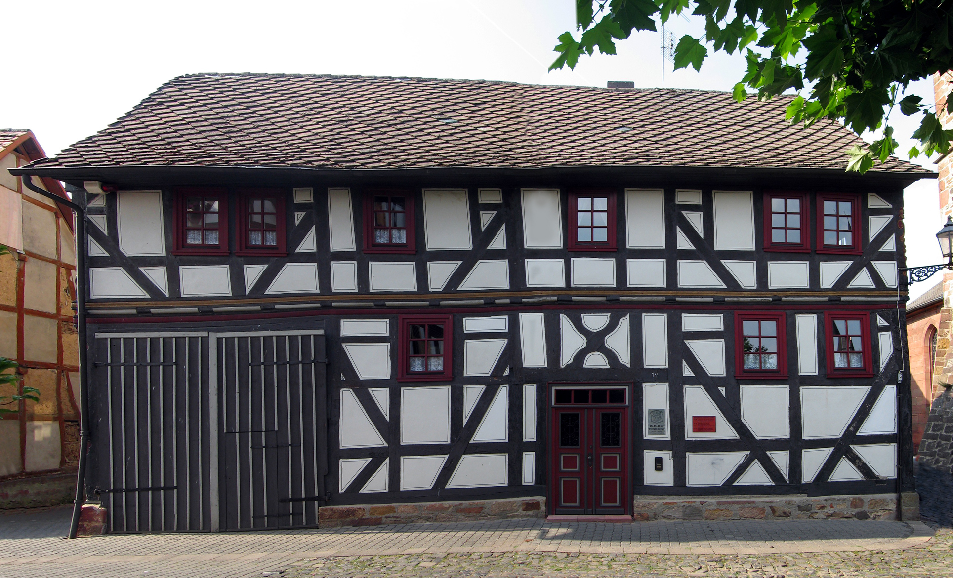 A typical timber framing house for hesse. It is now used as the city archive of Neustadt